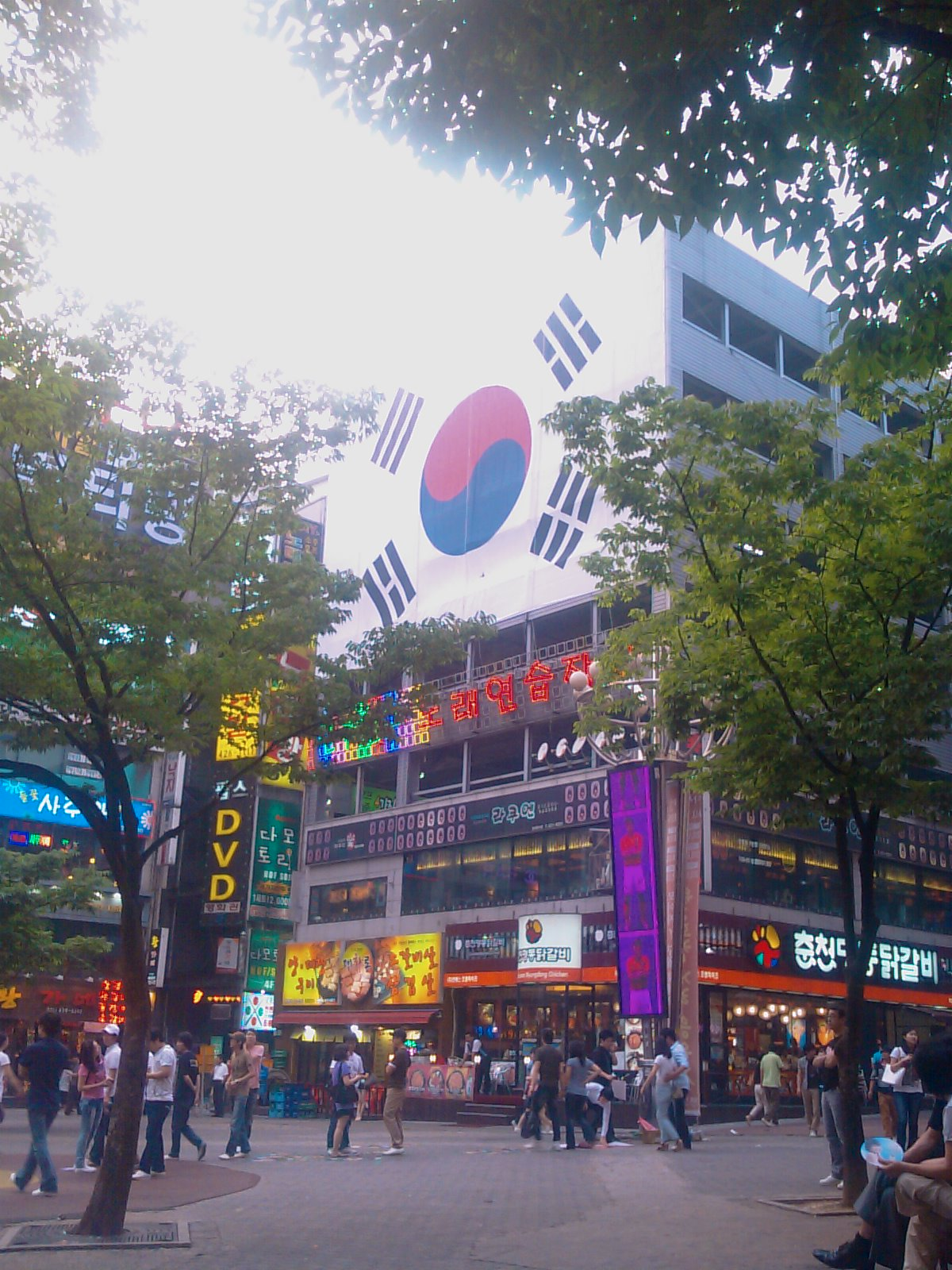 Incheon Rodeo street square, 2mins from the Arts Centre